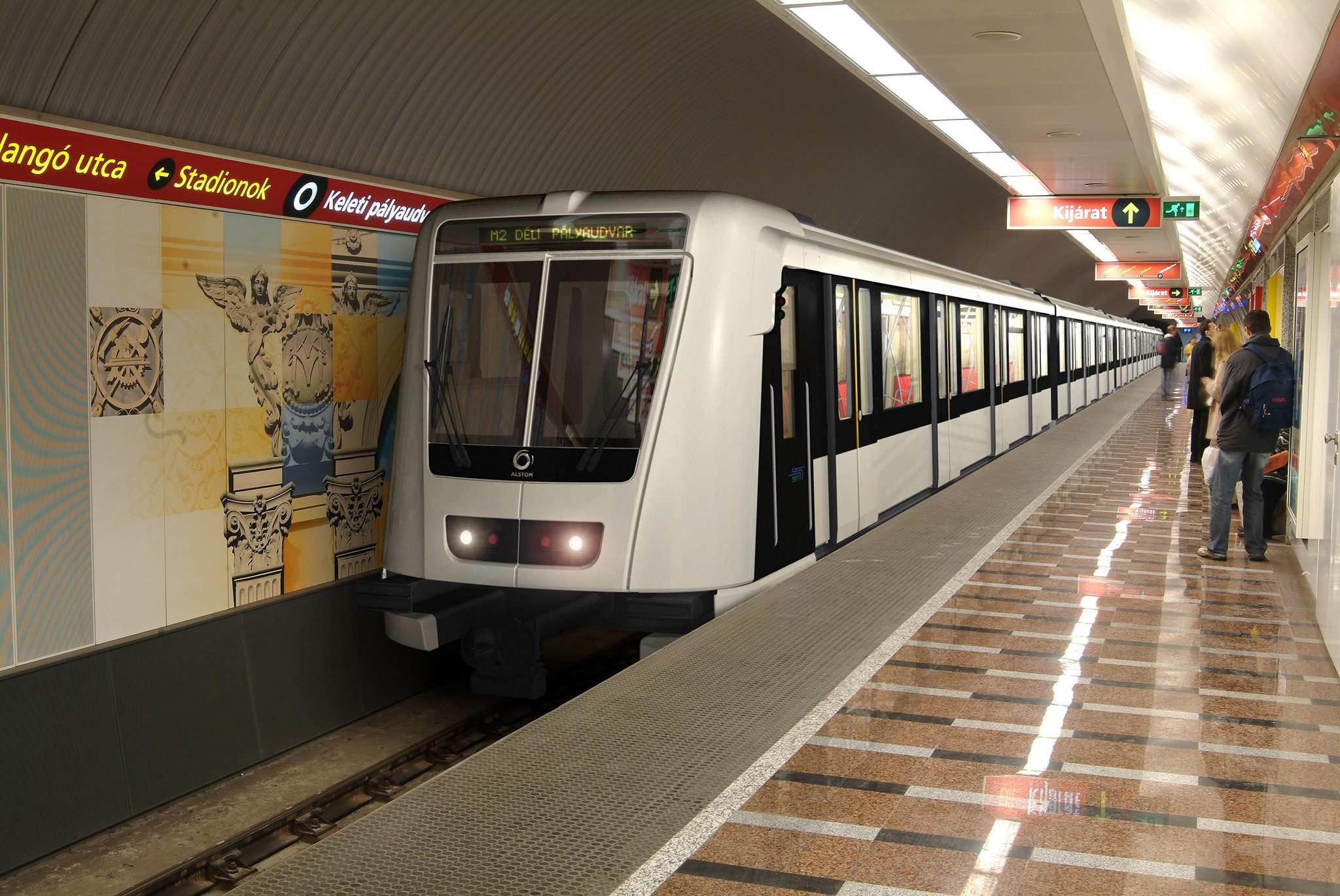 Alstom Metropolis in Budapest, Hungary (CGI)